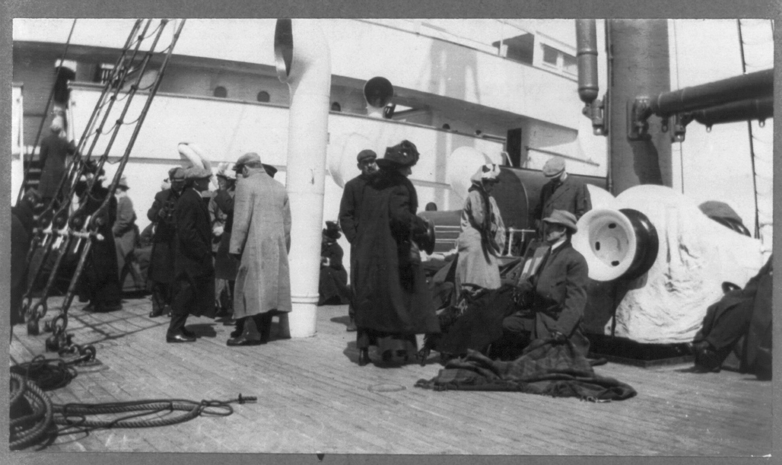 Survivors from TITANIC aboard rescue ship, unidentified group on deck